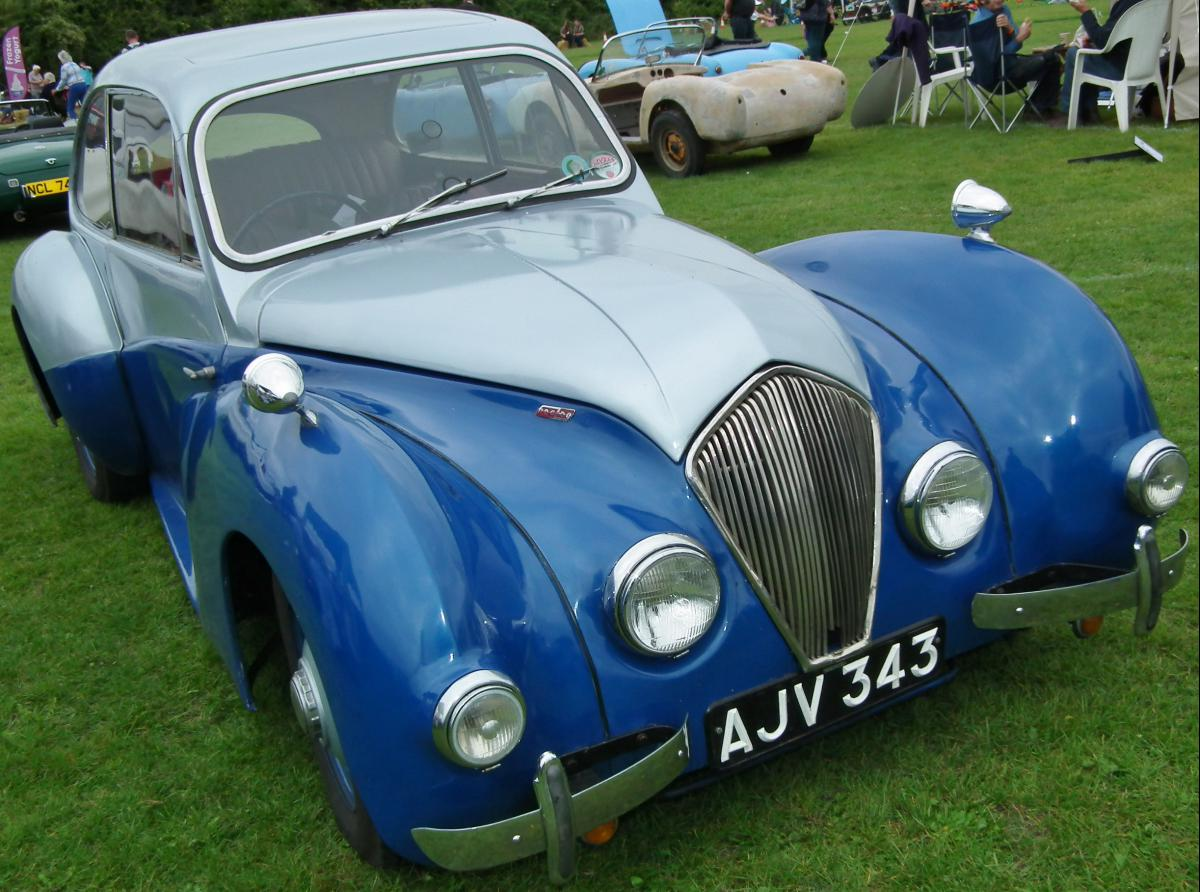 Healey Elliott 1948(DVLA) first registered 10 May 1948, 2443ccThis B chassis is one of the last streamlined low light cars as bodies were revised for the 1948 Earls Court Motor Show